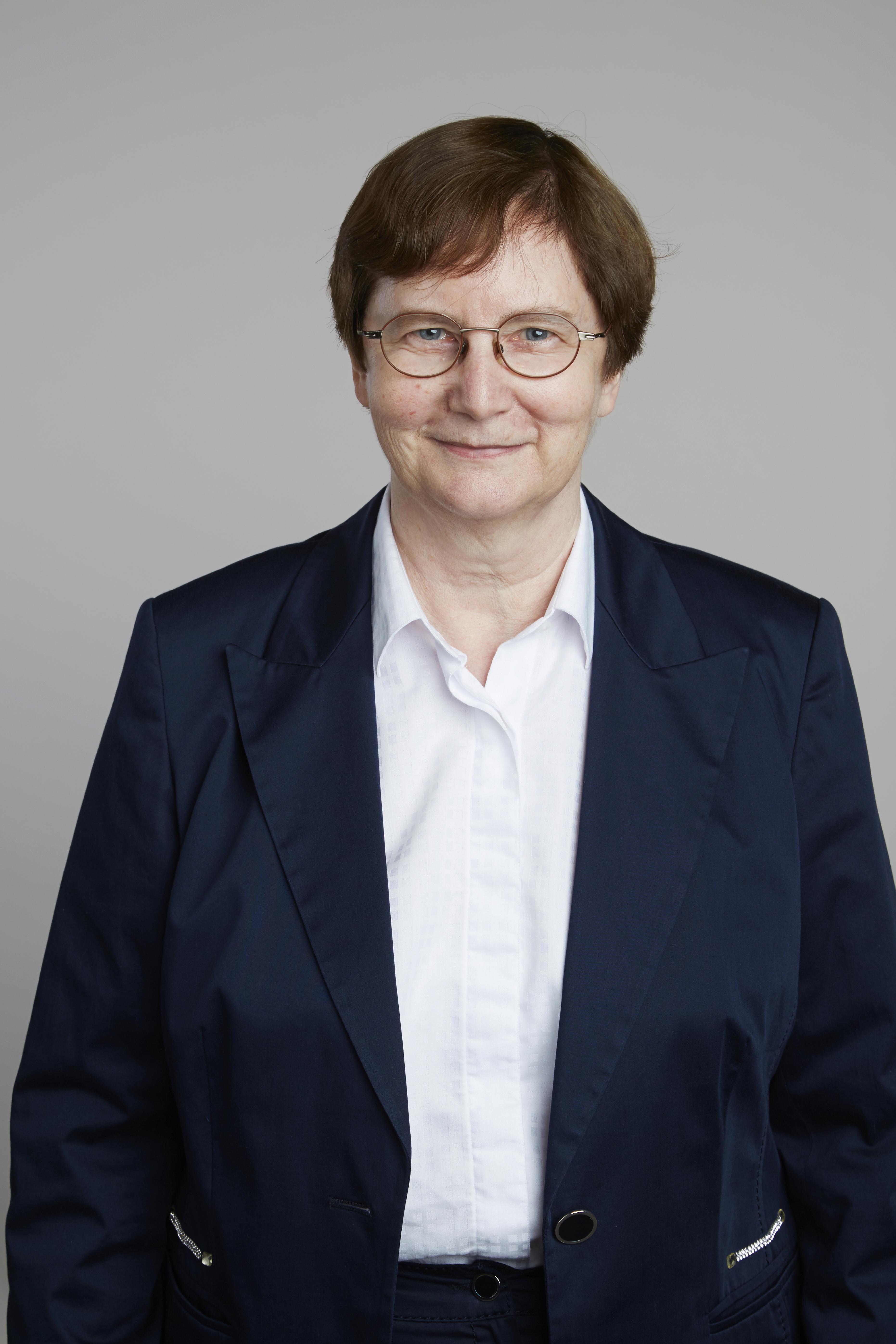 After studying languages and psychology in Melbourne, Berlin and Bonn, Anne Cutler embraced psycholinguistics when it emerged as an independent field, going on to complete her PhD in the discipline at the University of Texas. After postdoctoral fellowships at MIT and the University of Sussex, she worked as a research scientist at the MRC Applied Psychology Unit in Cambridge. Subsequently, she became Director at the Max Planck Institute for Psycholinguistics in Nijmegen, the Netherlands, and Professor of Comparative Psycholinguistics at Radboud University. She is now Professor in the MARCS Institute, University of Western Sydney, Australia, and programme leader of the Australian Research Council Centre of Excellence in the Dynamics of Language. Her research, summarised in the book Native Listening (2012), centres on human listeners’ recognition of spoken language, and in particular on how the brain’s processes of decoding speech are shaped by language-specific listening experience. Her work has received the Spinoza Prize of the Dutch Research Council and the International Speech Communication Association Medal, and she is an elected member of several scientific academies. Attribution: The Royal Society